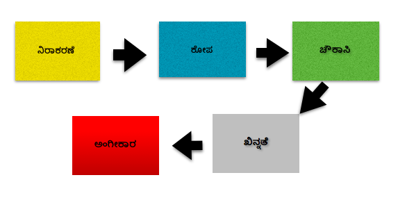 Kübler Ross's stages of grief.